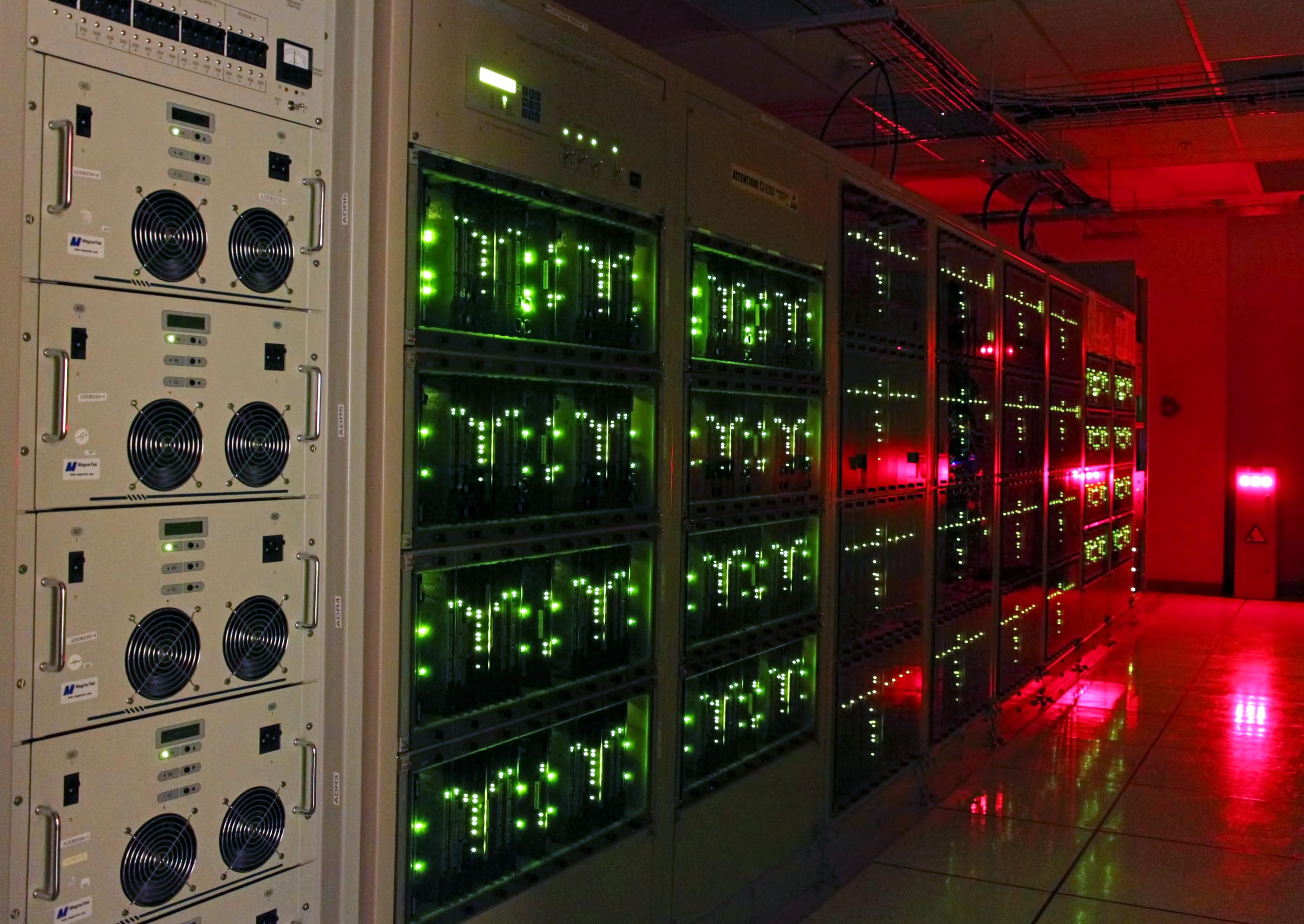 The ALMA correlator, one of the most powerful supercomputers in the world, has now been fully installed and tested at its remote, high altitude site in the Andes of northern Chile. This view shows lights glowing on some of the racks of the correlator in the ALMA Array Operations Site Technical Building. This photograph shows one of four quadrants of the correlator. The full system has four identical quadrants, with over 134 million processors, performing up to 17 quadrillion operations per second.